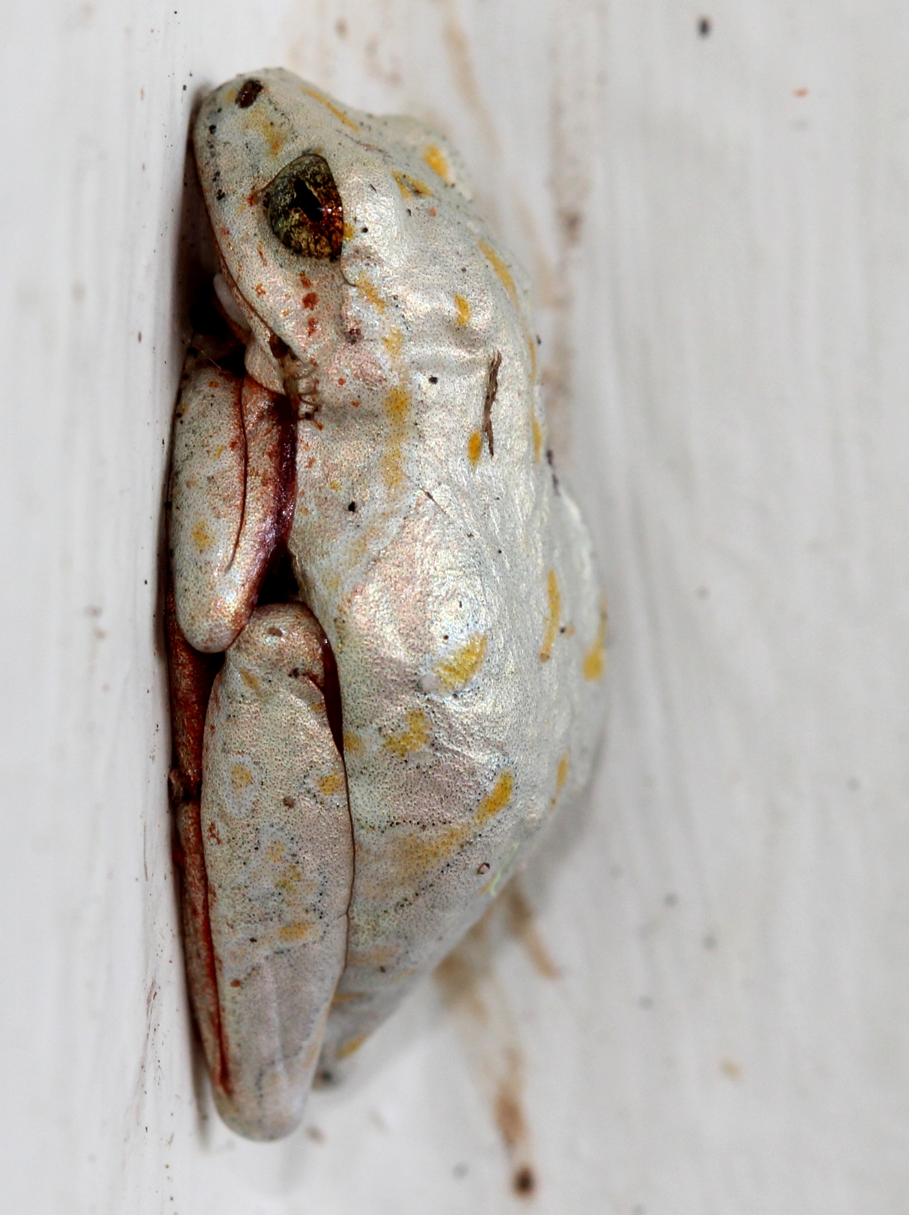 Hyperolius marmoratus, Painted reed frog in aestivation. Silvery skin with yellow blotches differs from colour of active animal